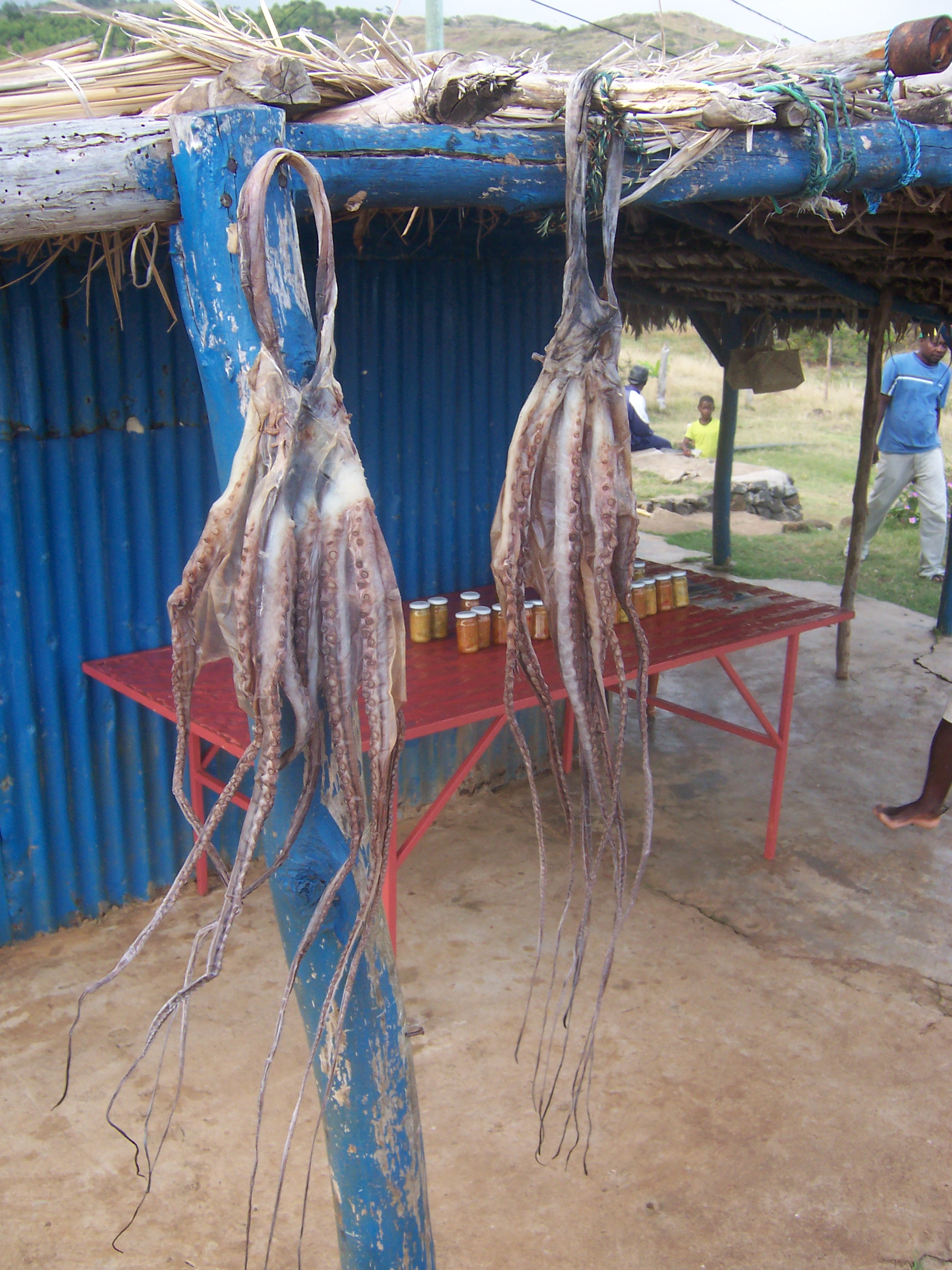 drying Octopus cyanea to be sold on Rodrigues island.